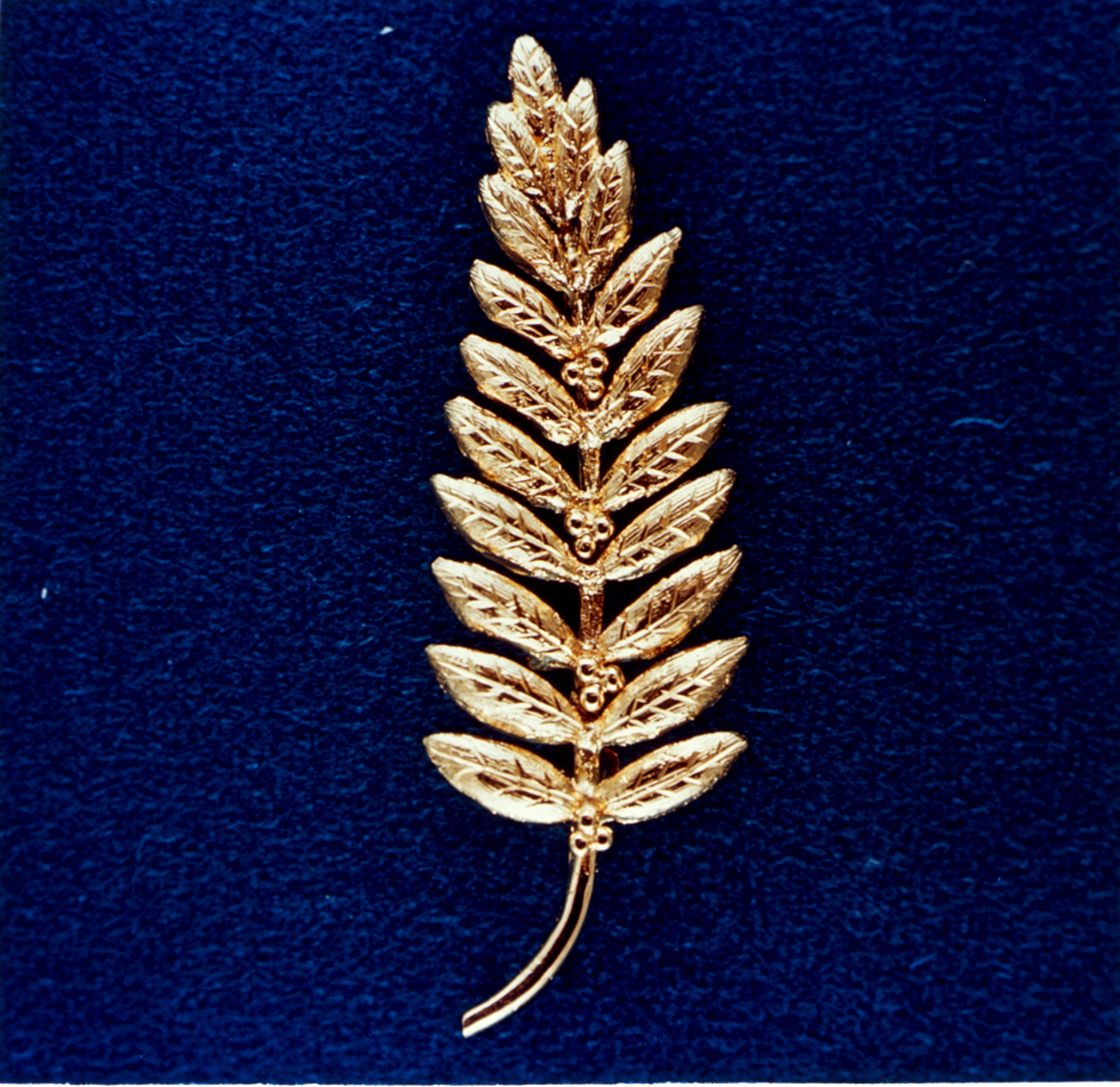 This is the gold replica of an olive branch, the traditional symbol of peace, left on the Moon's surface by Apollo 11 crewmembers. Astronaut Neil A. Armstrong, commander, placed the small replica (less than half a foot in length) on the Moon. The gesture represented a wish for peace for all mankind.